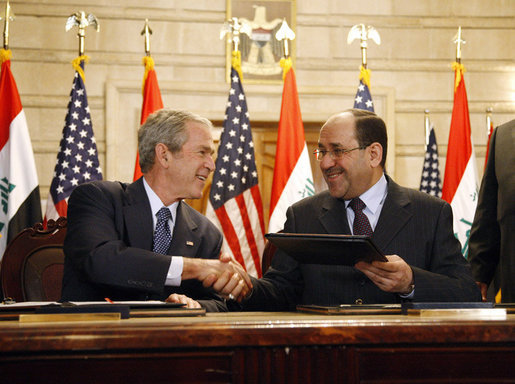 President George W. Bush and Iraqi Prime Minister Nuri al-Maliki shake hands following the signing of the Strategic Framework Agreement and Security Agreement at a joint news conference Sunday, Dec. 14, 2008, at the Prime Minister's Palace in Baghdad, Iraq.